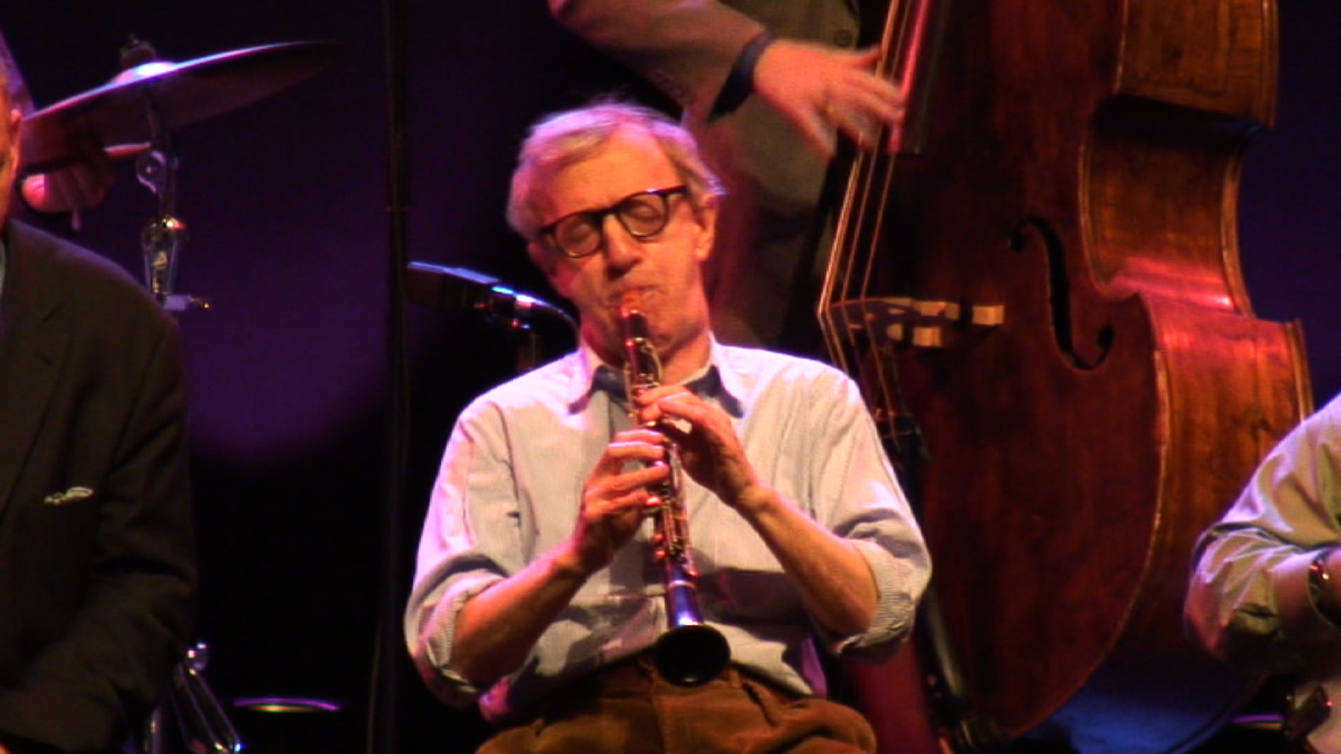 Woody Allen at jazz concert in Lisbon, Portugal